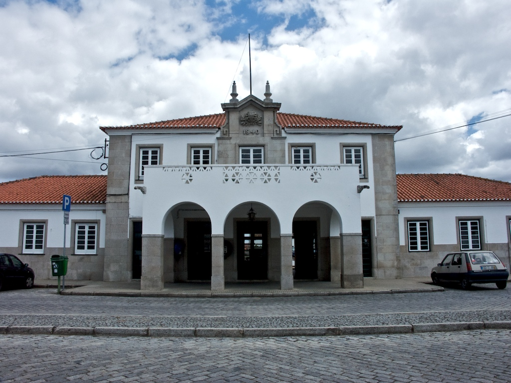 Évora train station of the Évora railway line; Portugal